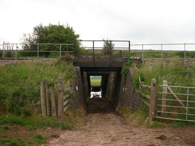 Bonds Cattle Creep 158m 9.25ch MLN A passage way under the main line railway to allow movement of livestock between fields.